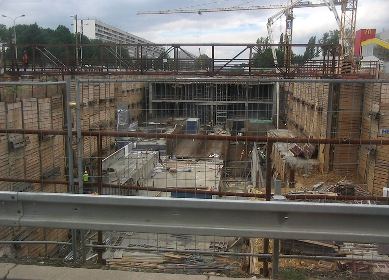 Construction works at the new metro part of Prague near the future "Prosek" station